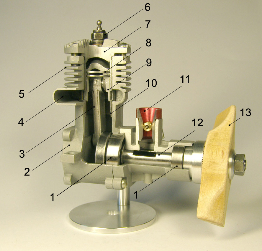 Glow plug model engine